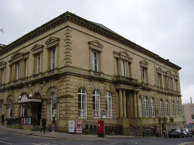 Burnley Mechanics, Manchester Road, near to Burnley, Lancashire, Great Britain.